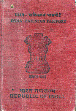 India-Pakistan passport issued specially for travel between India and Pakistan.